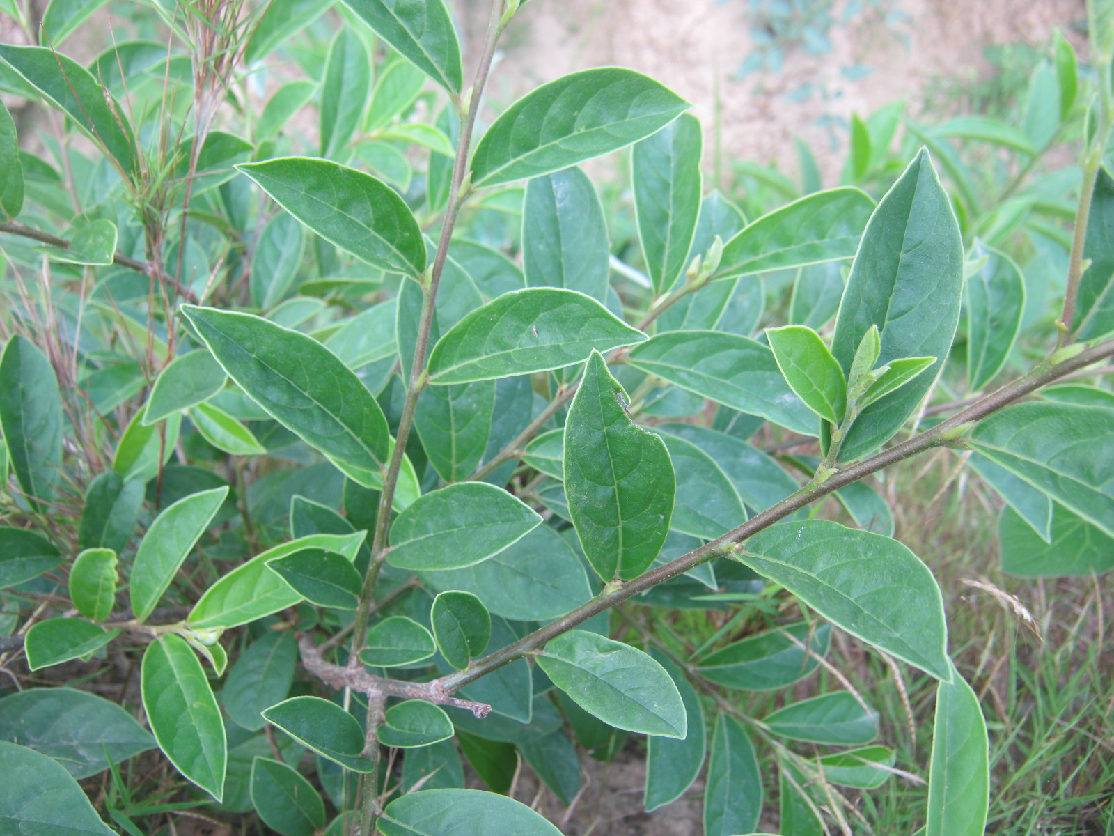 Antidesma bunius (Archal) plant found in a Community forest in Panchkhal Valley of Nepal.